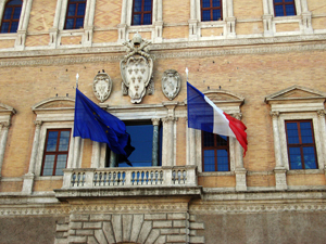 Photo by Aries Liang